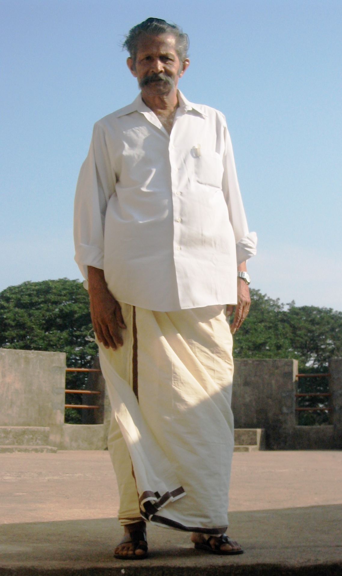 Sri Ponnumala C. of Palakkad, India, atop the 18th century Tippu Sultan Fort built by Haider Ali, emperor of Mysore province. Photo by Beverley M. Sutherland, Copyright 2006. Sri Ponnumala C. of Palakkad, India, atop the 18th century Tippu Sultan Fort built by Haider Ali, emperor of Mysore province. Photo by Beverley M. Sutherland, Copyright 2006.